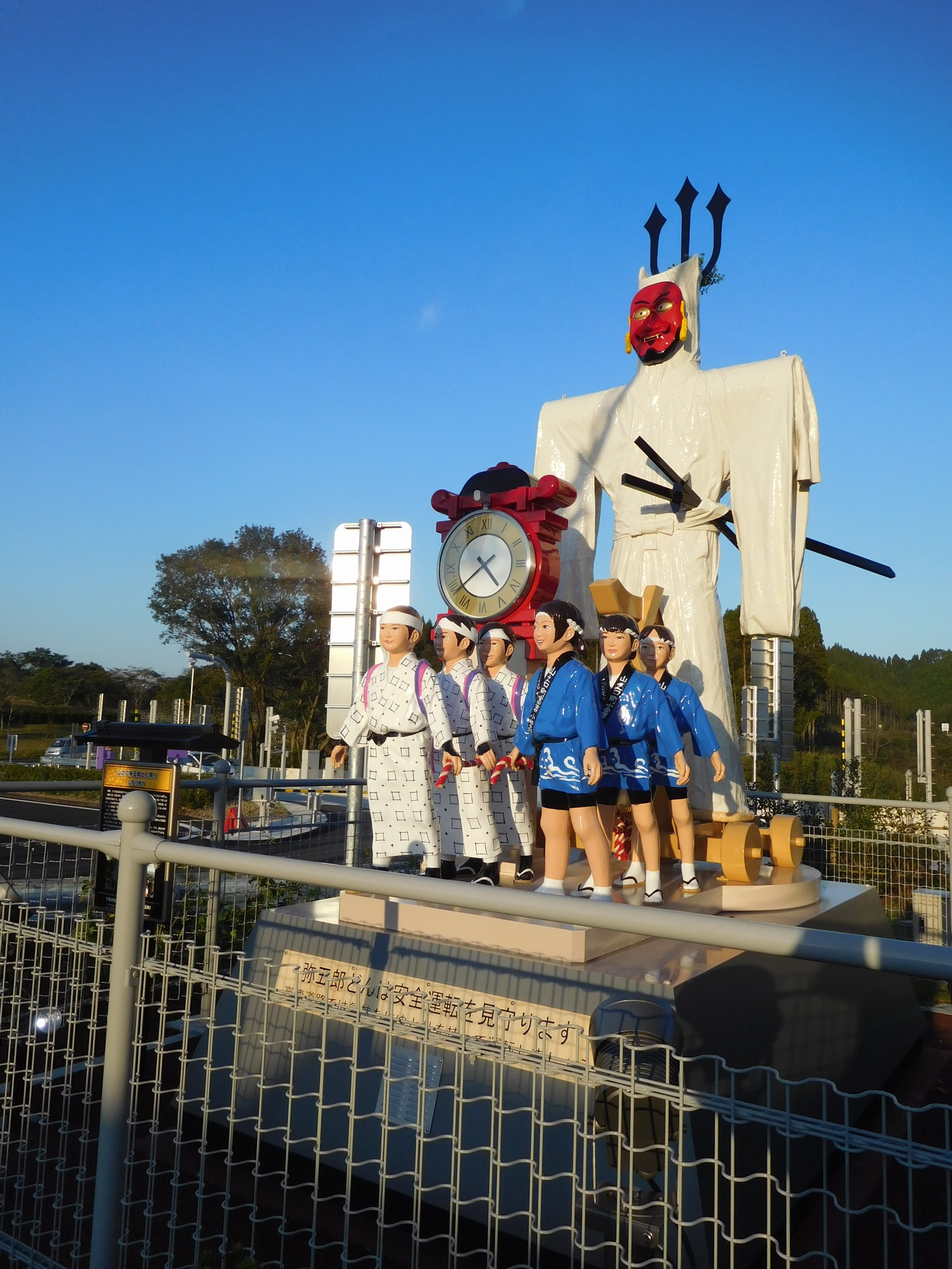 Yagoro-don Marionette Clock at Yamanokuchi Rest Area Southern Side (Miyazaki Expressway - Yamanokuchi, Miyakonojo City, Miyazaki, Japan)